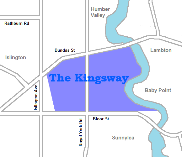 map of The Kingsway